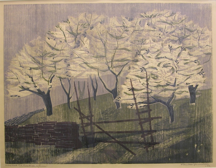 Photo of the woodprint "Eplehage i blomst" made by the Norwegian artist Carl Frithjof Tidemand-Johannessen in 1953. Carl Frithjof Tidemand-Johannessen died in 1958, and according to Norwegian law (Åndsverksloven) this artwork will usually be protected until 70 years after the death year of the creator.